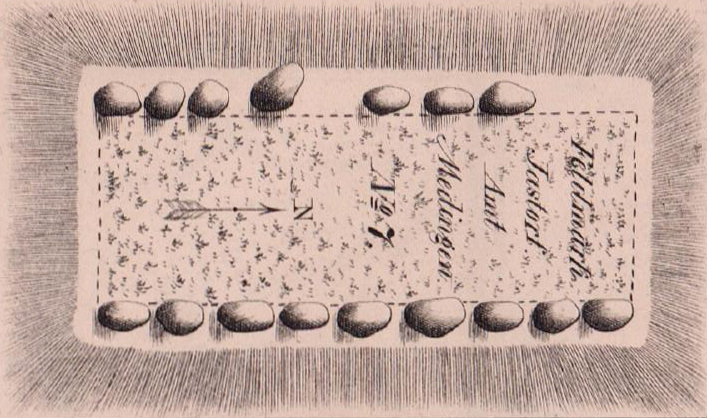 Megalithic tomb Jastorf 4, Sprockhoff-No 775